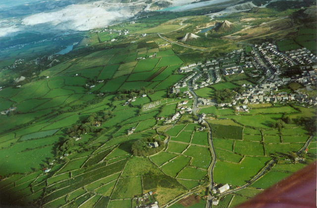 view of St Dennis